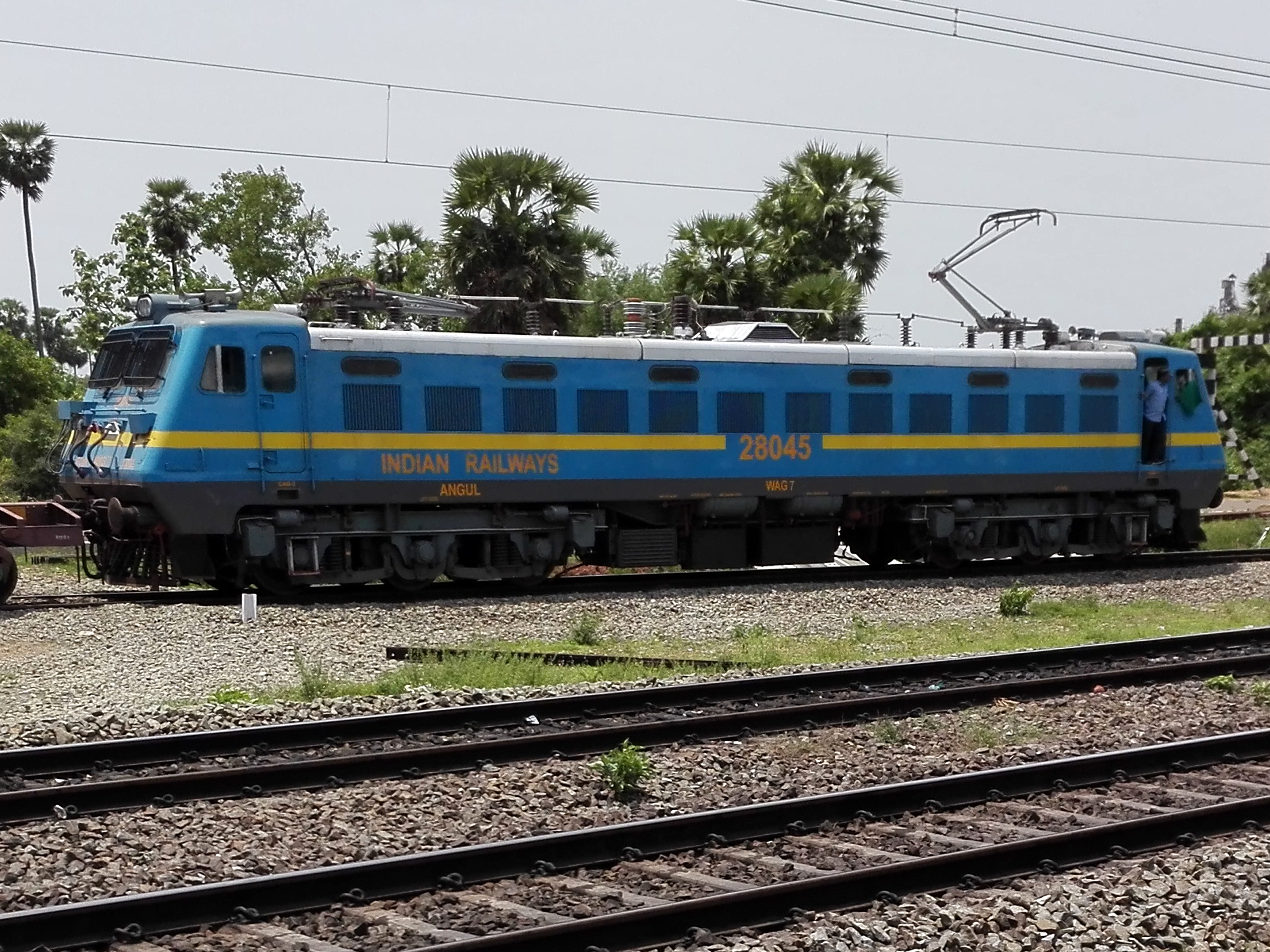 (28045) WAG7 Locomotive from Angul at Alamanda Railway station